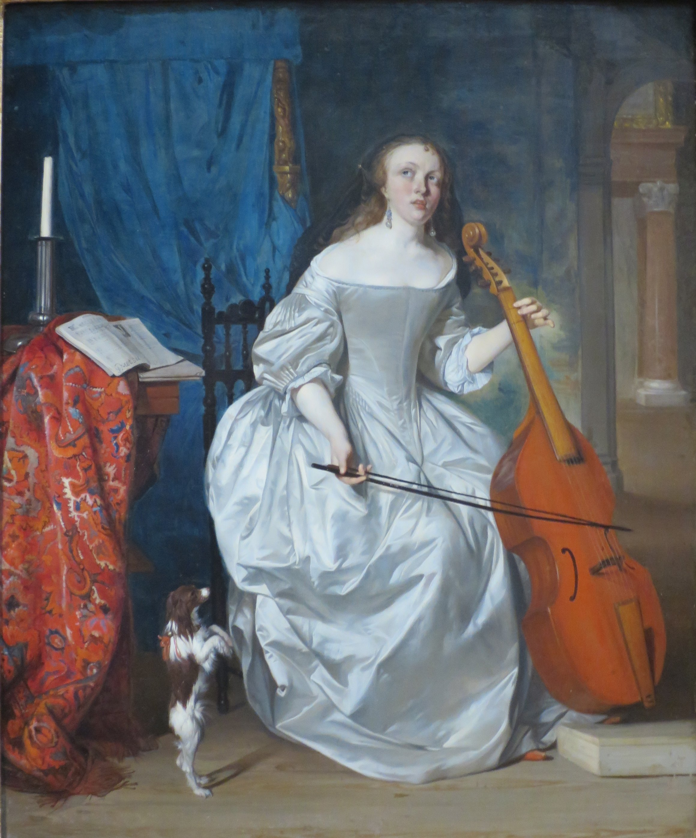 This image is available from the Netherlands Institute for Art Historyunder digital ID 247275. This tag does not indicate the copyright status of the attached work. A normal copyright tag is still required. See Commons:Licensing.